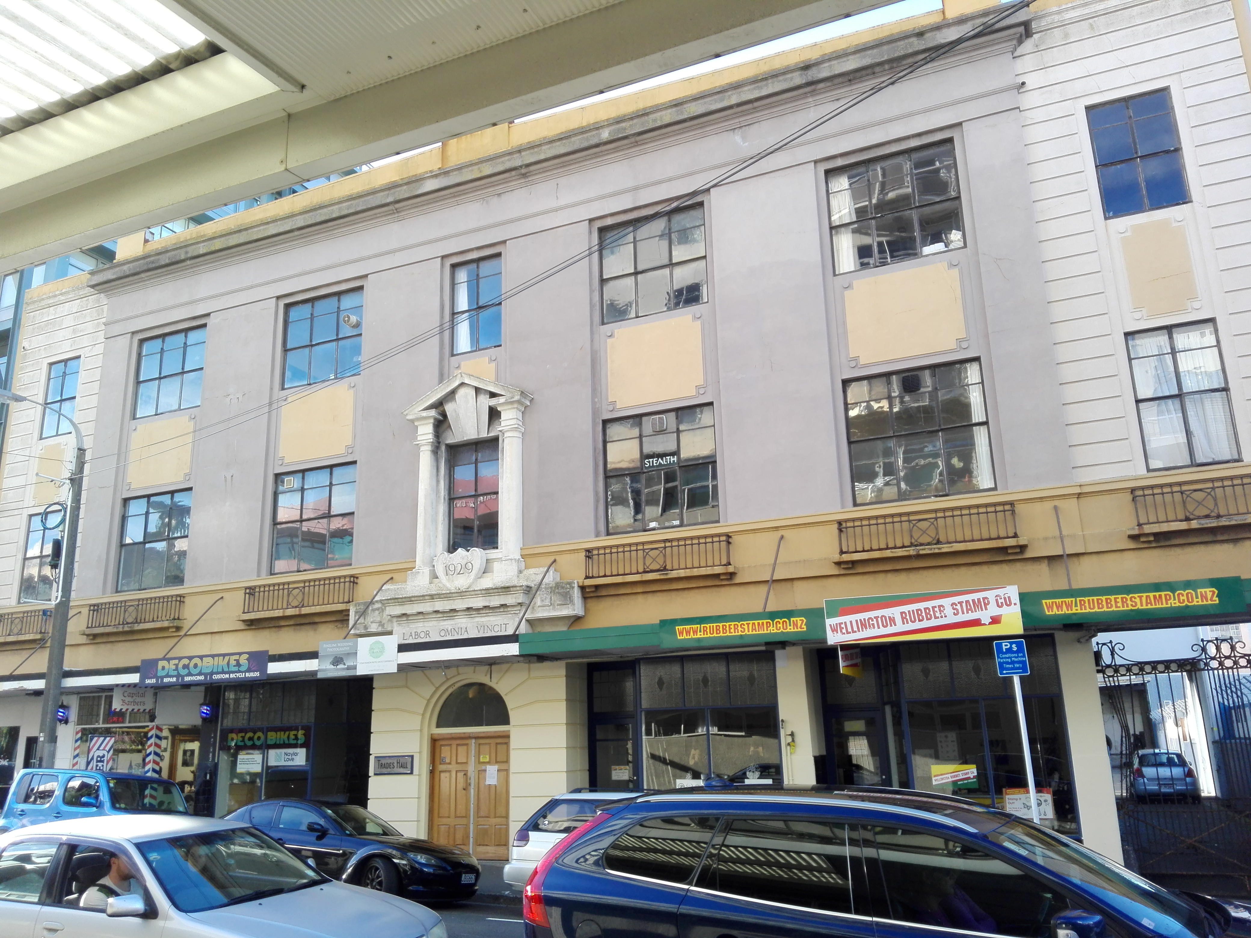 Exterior of the Trades Hall, Wellington